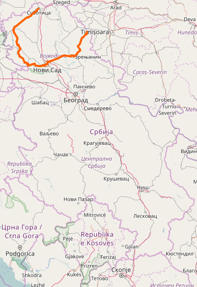 OpenStreetMap of State Road 12 in Serbia.